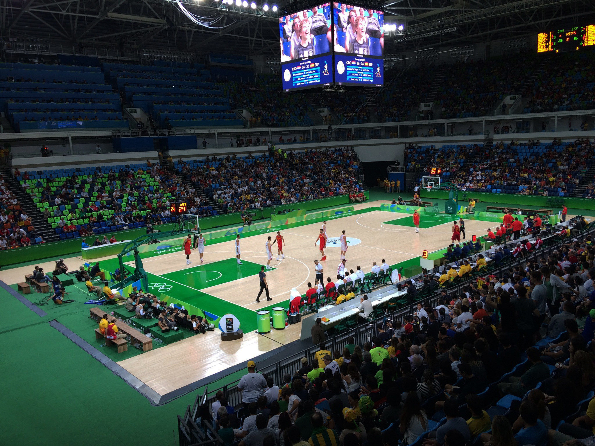 No attribution required, but appreciated If you can credit Visit for more free photos, videos and sounds. Carioca Arena 1 info